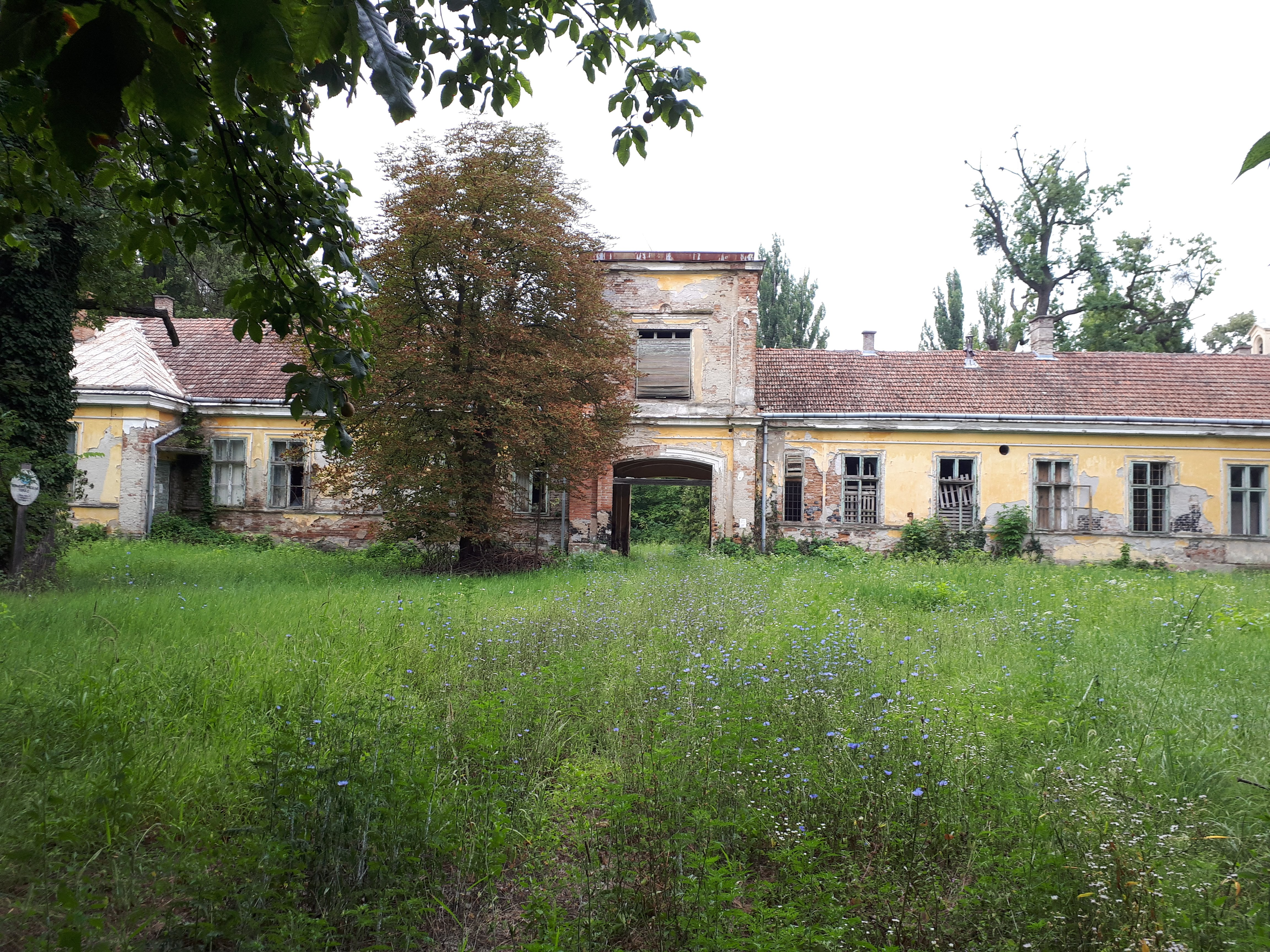 Baroque castle̟ of Wenckheim family̟ in Békéscsaba̟-Gerla, now in its ruins